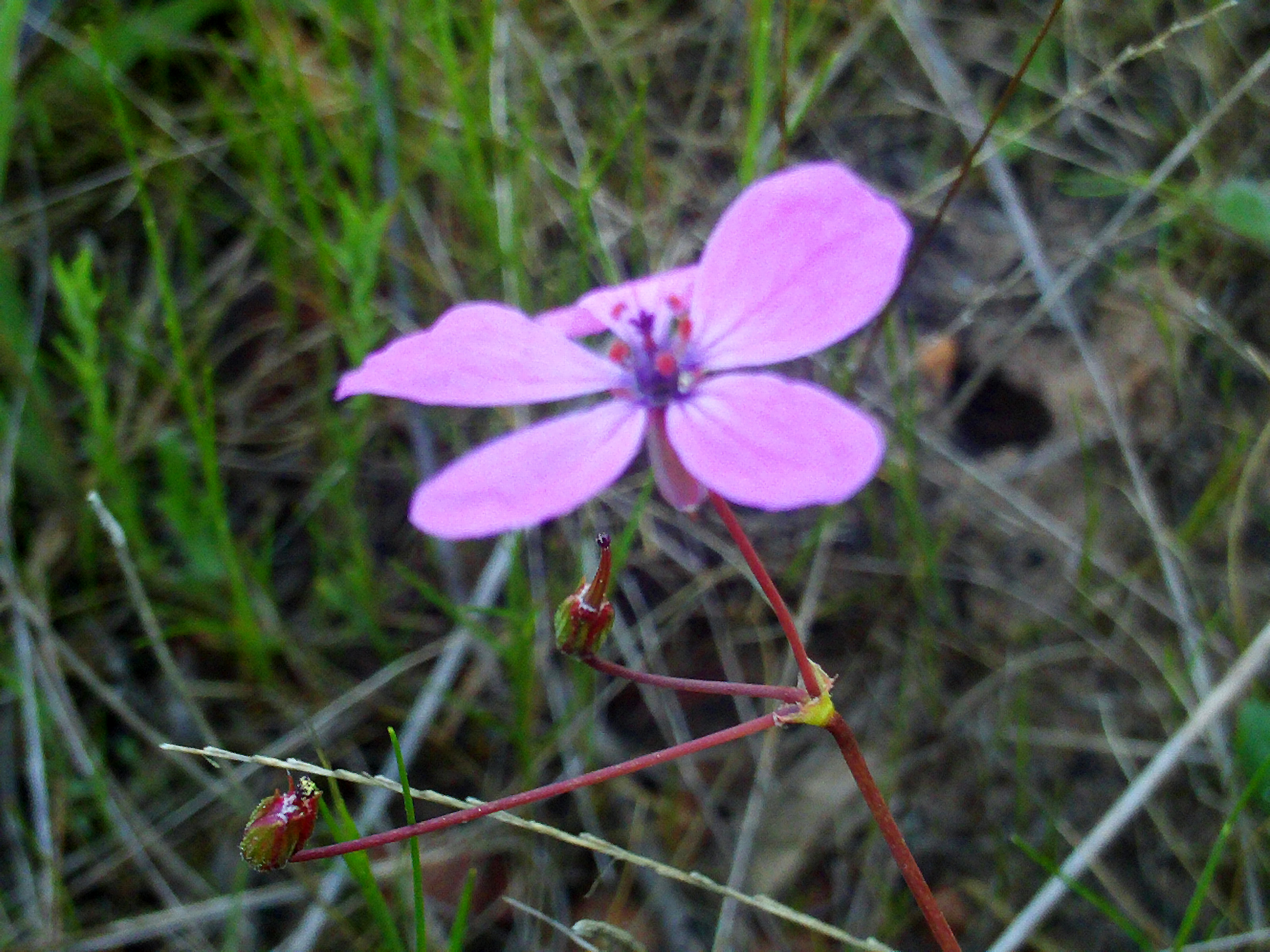 Erodium aethiopicum flower close up, Dehesa Boyal de Puertollano, Spain